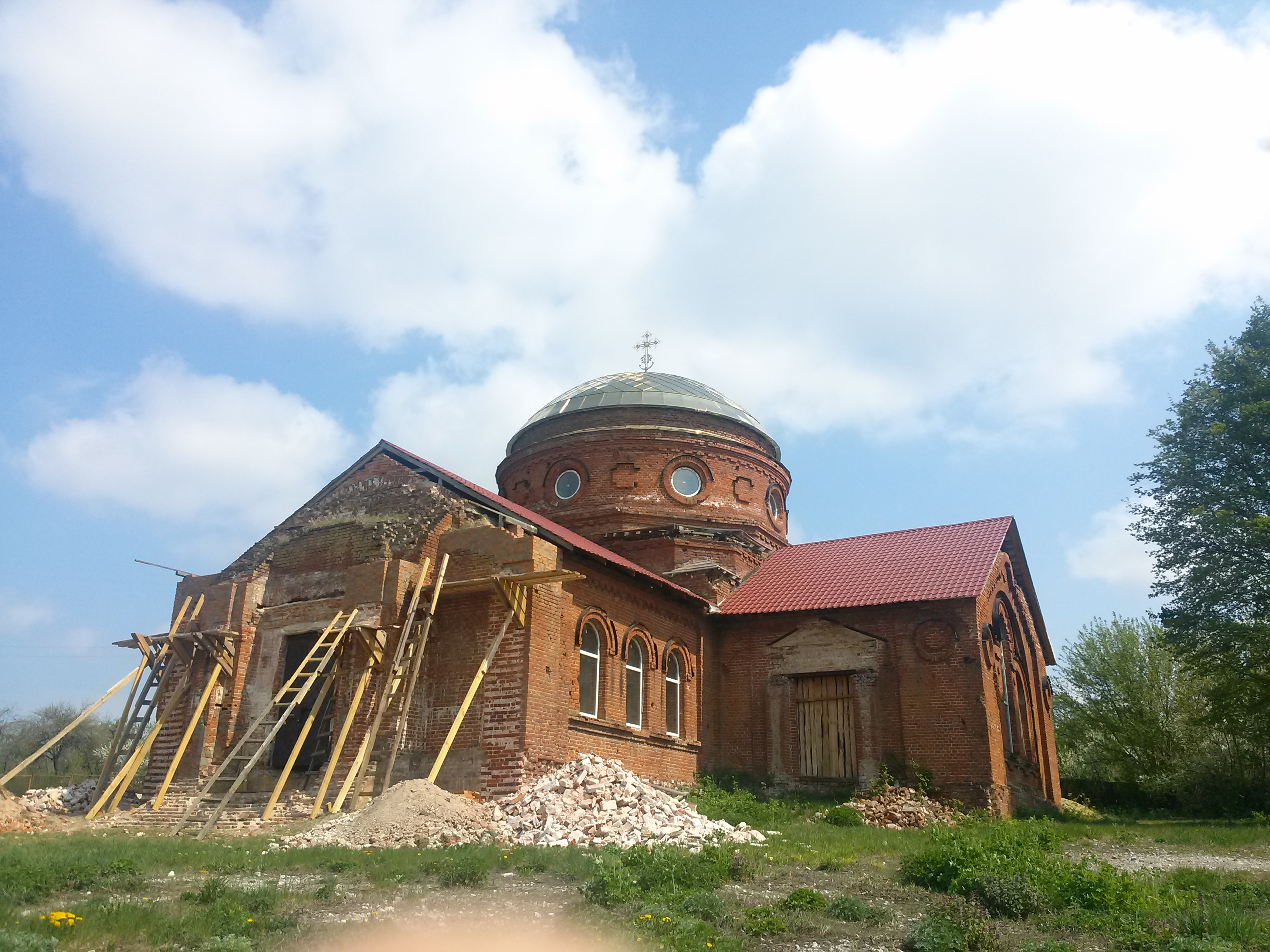 A small single-storey stone church of the Epiphany, located in the center of the village on a hill. It was built within ten years of the means of small landowners and residents of surrounding villages. Today, it is decrepit, and in Soviet times there was a collective farm barn.